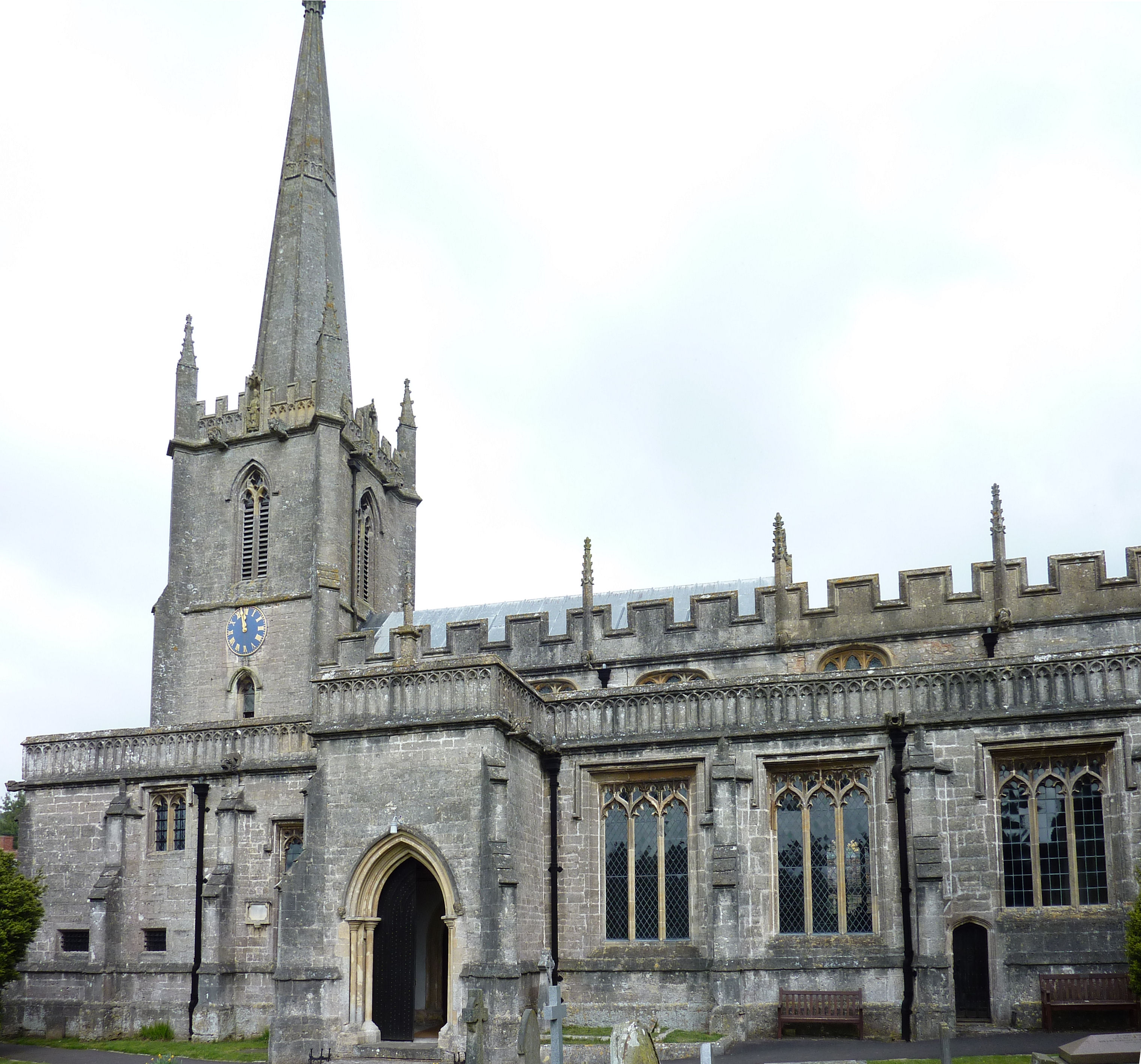 The church of the Blessed Virgin Mary in Croscombe, Somerset